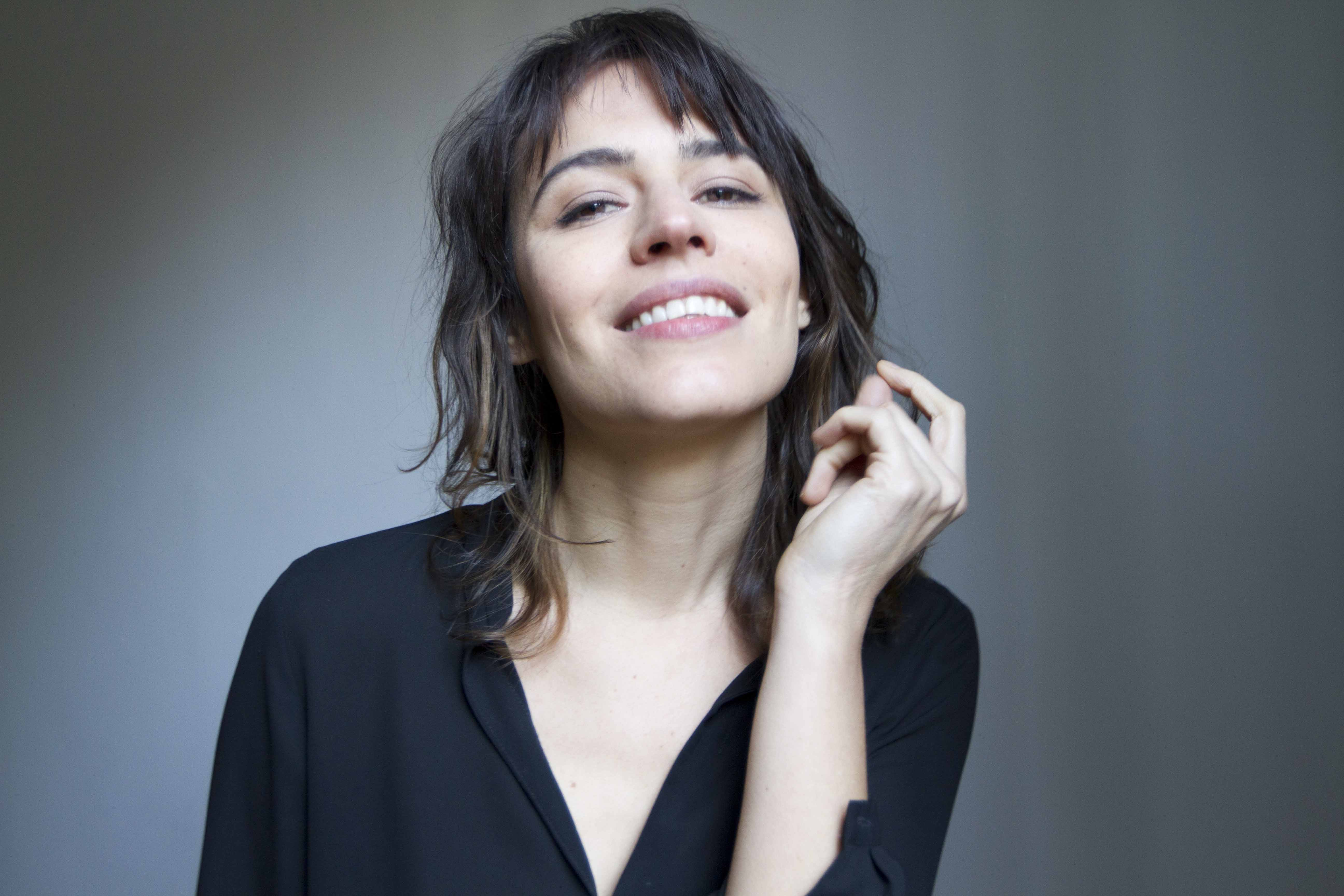 giorgia sinicorni